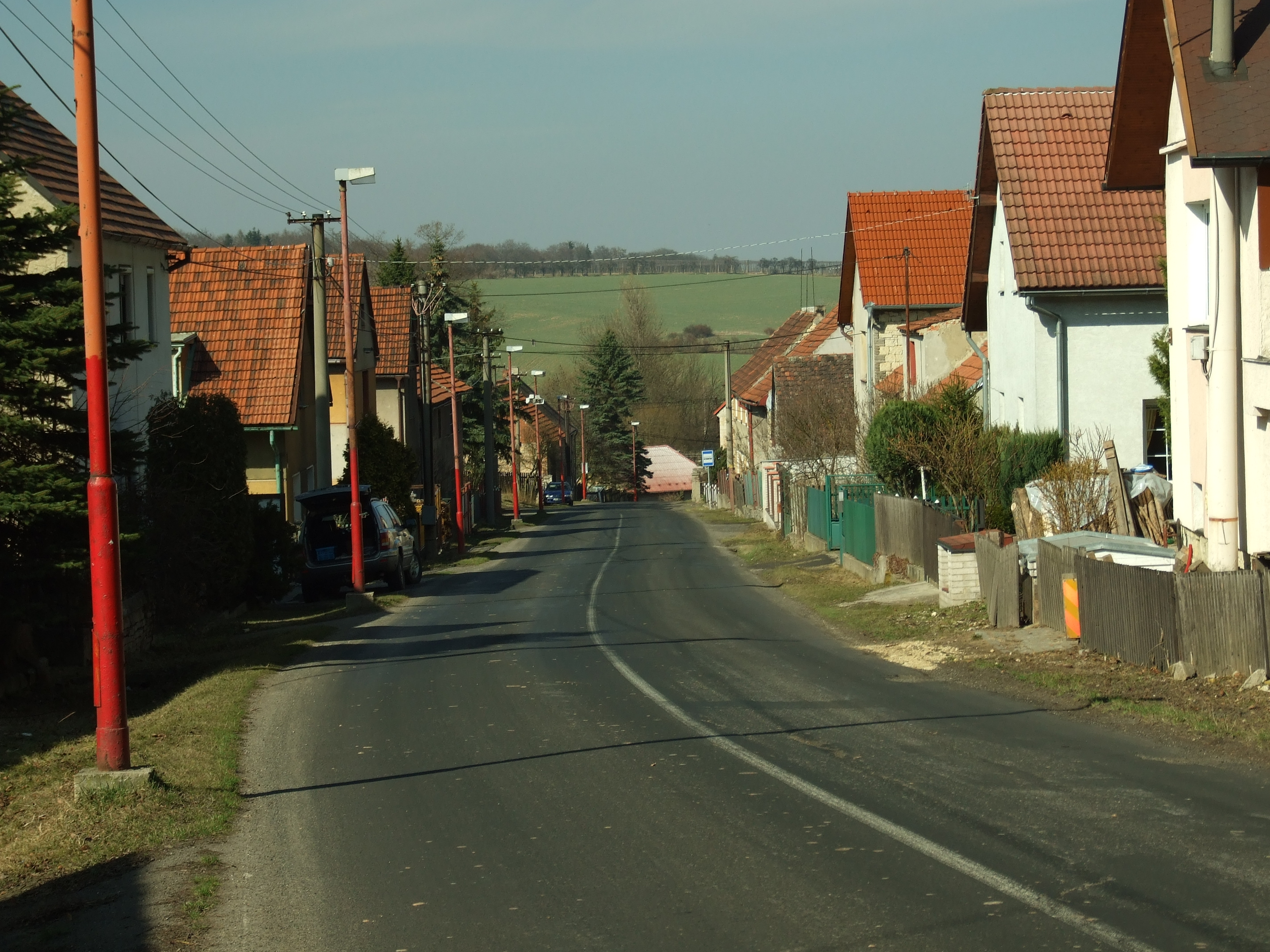 A road in southern part of the Třeboc village, Rakovník District. Central Bohemian Region, CZ